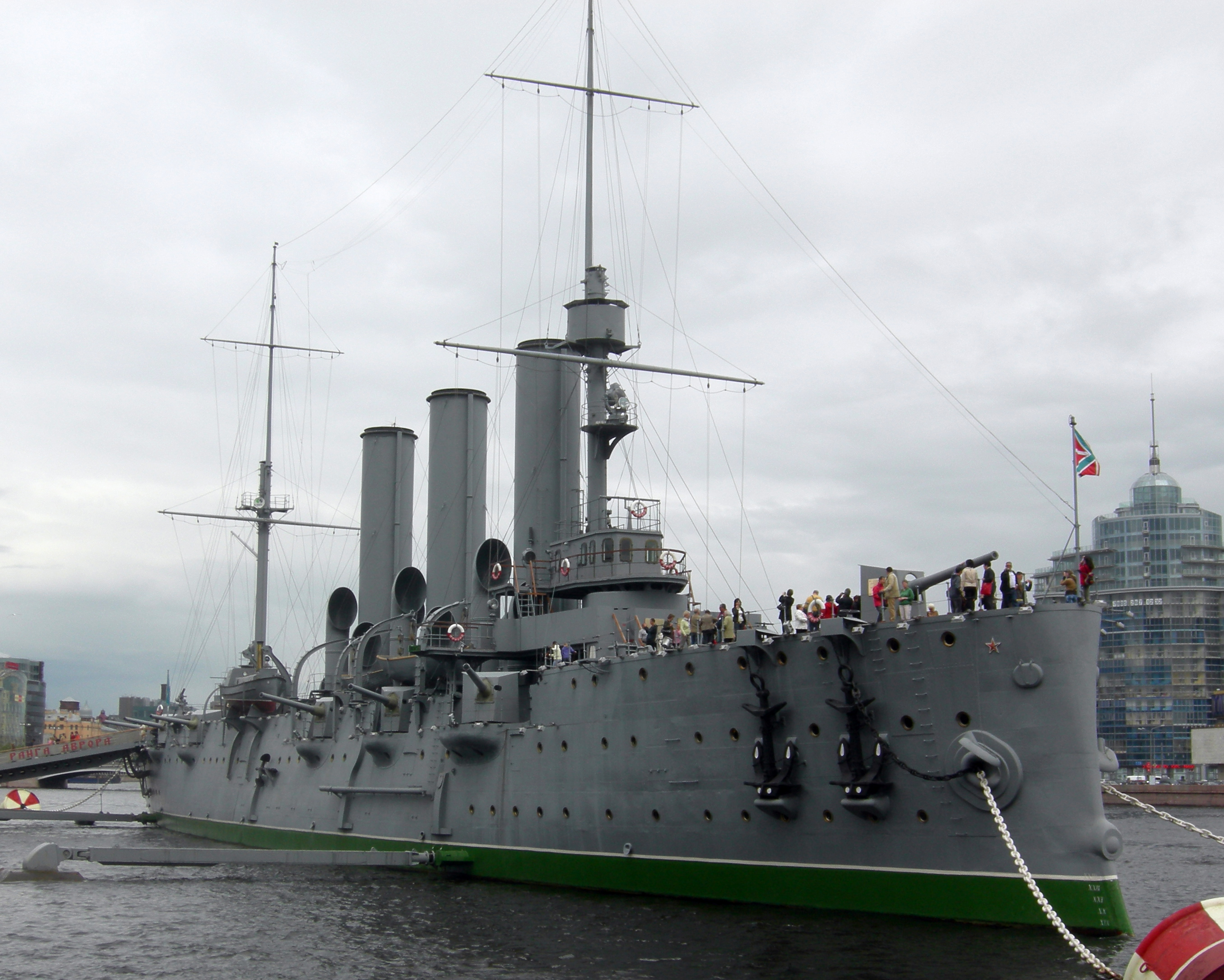 Russian Cruiser Aurora in St. Petersburg, Russia.